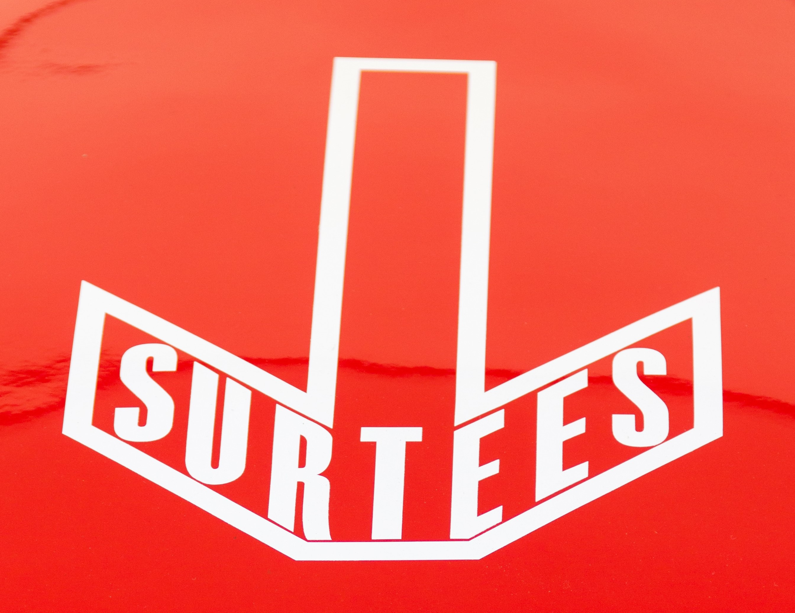 The 1970 Surtees TS7 F1 car at The 2014 Goodwood Festival of Speed.